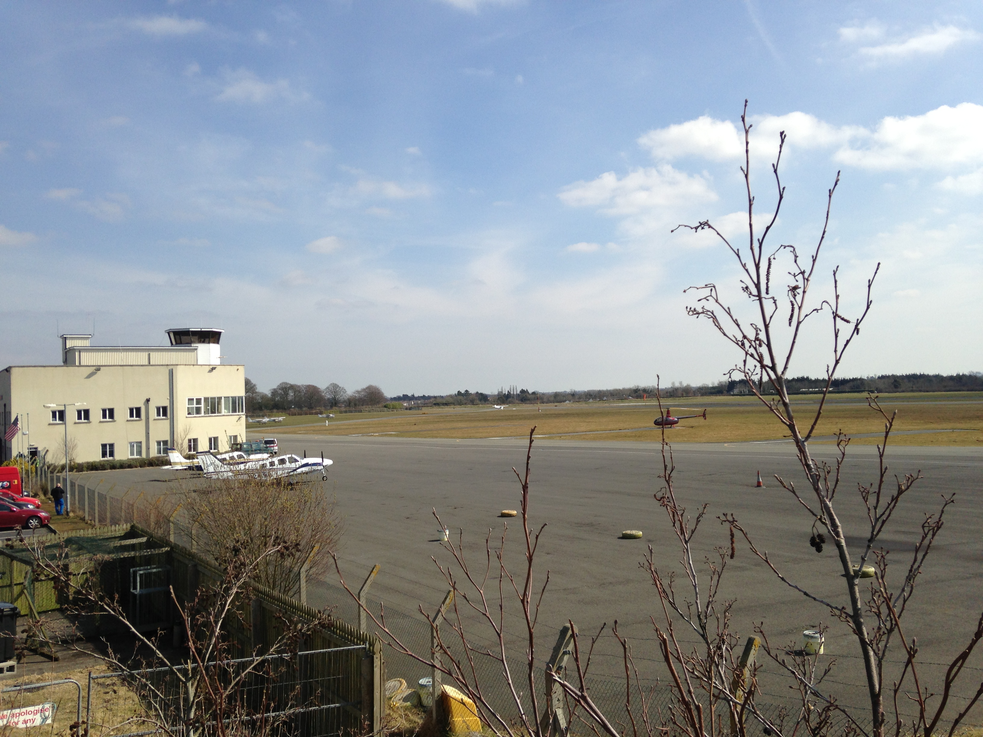 Photo of Weston Executive Airport. Taken on 6th April 2013.